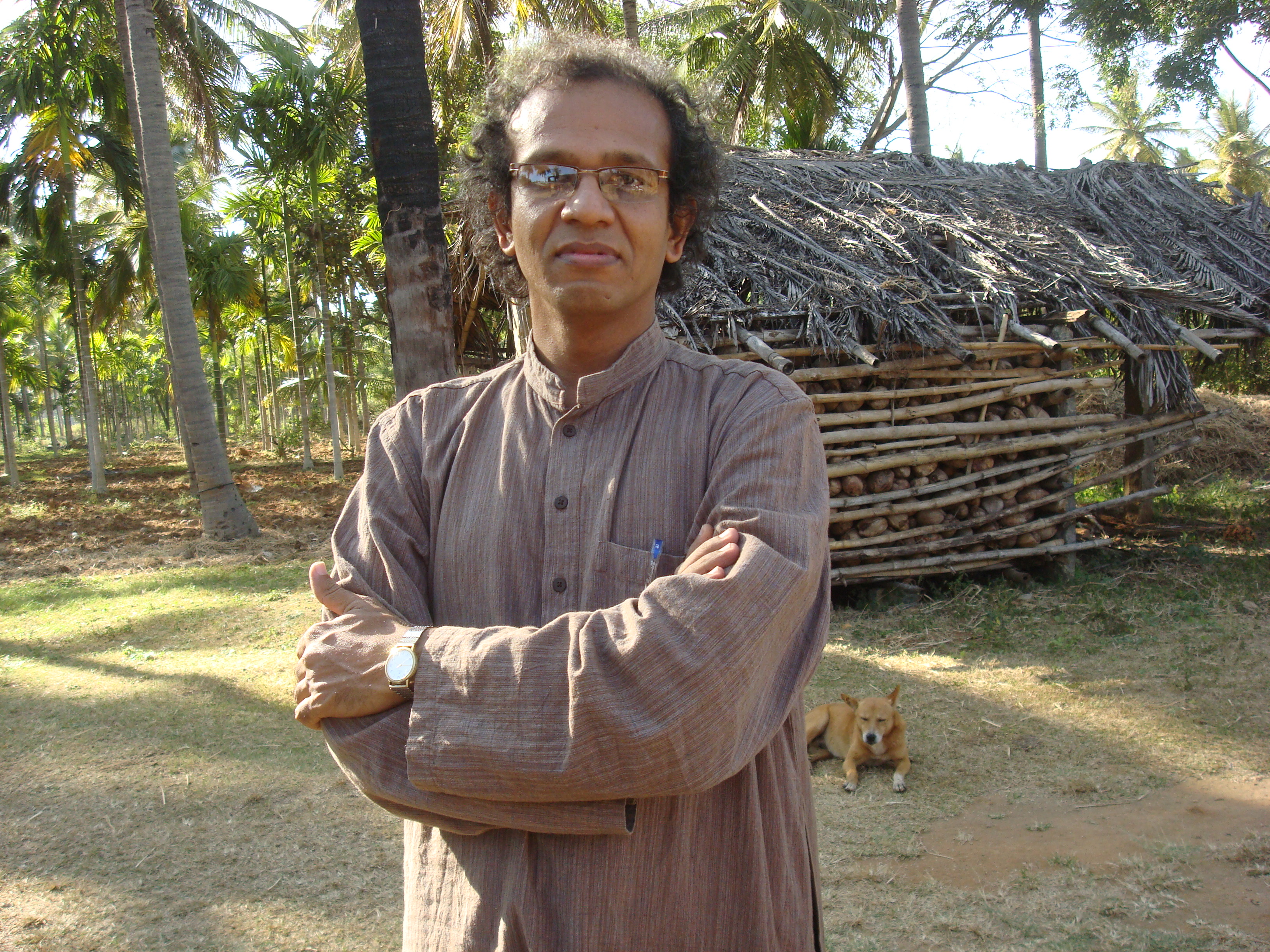 Dr. R Ganesh at a house in Santeshivara, during the felicitation of Dr. S L Bhyrappa